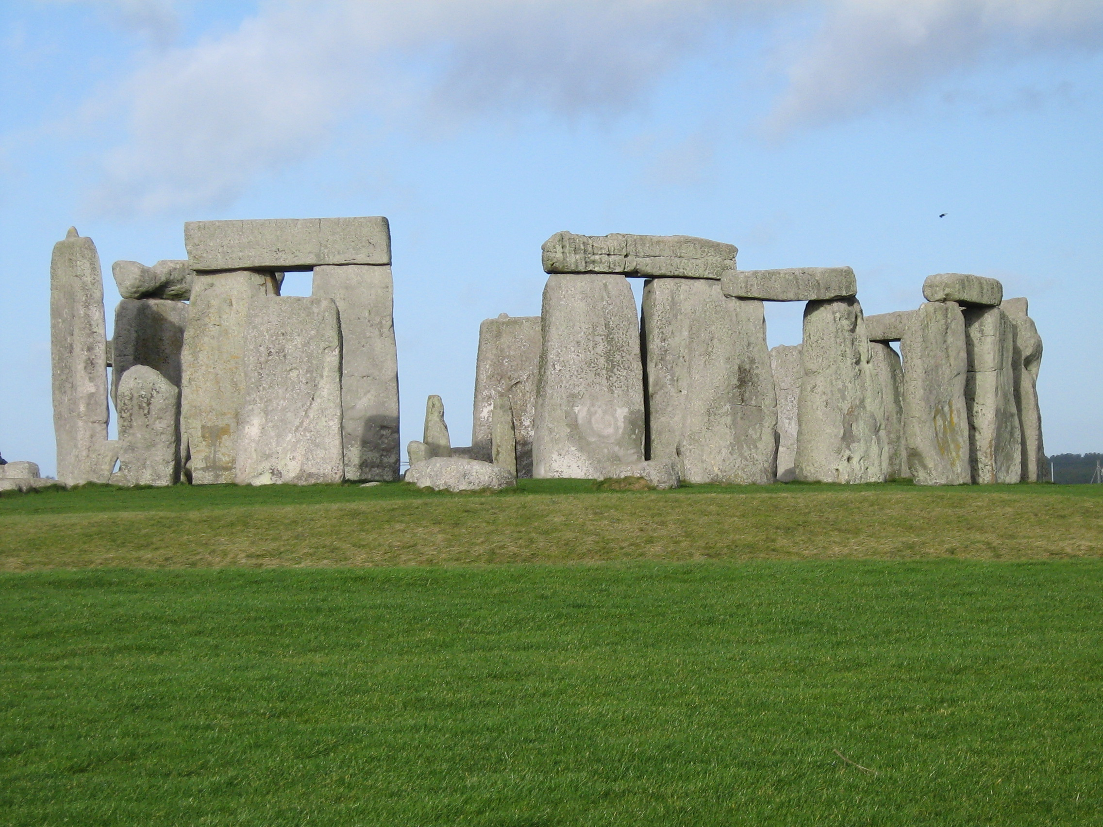 Plain old stonehenge.